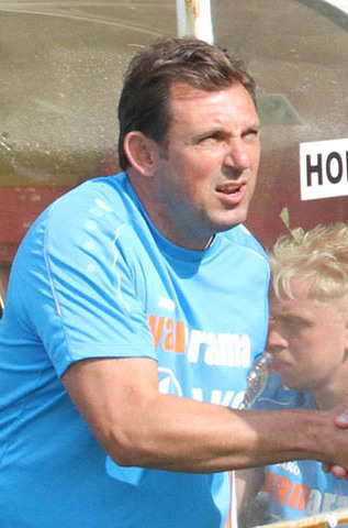 Darren Caskey before York City's match against F.C. United of Manchester at Bootham Crescent, York on 28 August 2017